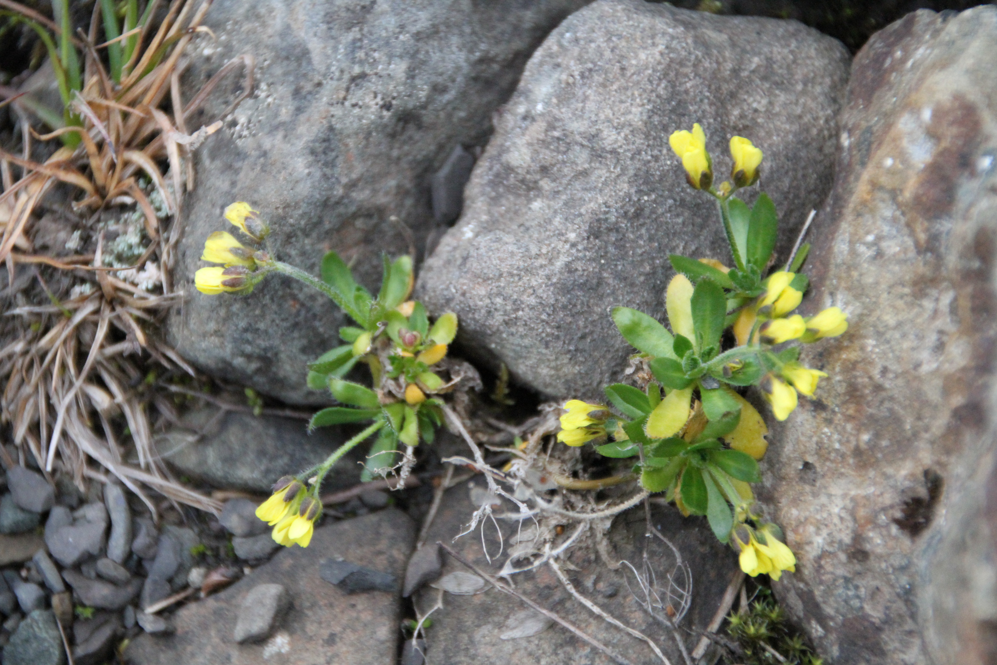 Saxifrage flowers observed at the island Spitsbergen - Svalbard. August 2012.